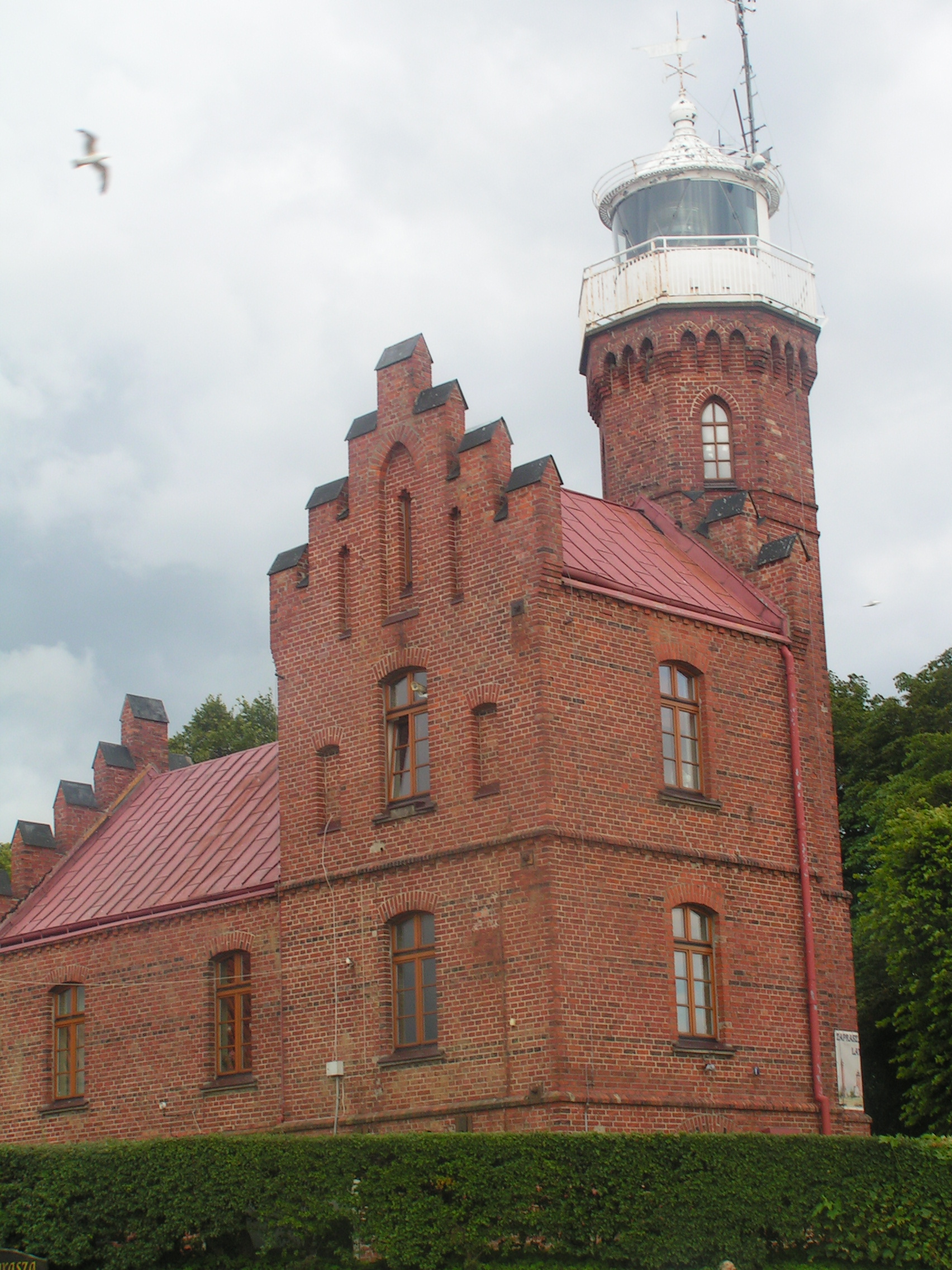 Ustka Lighthouse